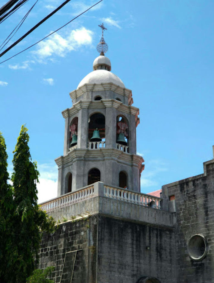 This bell tower have eight big bells.